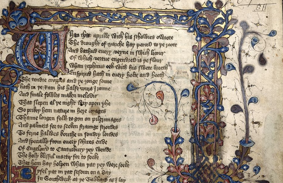 Harley manuscript 7334, f. 1, top half. Chaucer's Cantebury Tales.